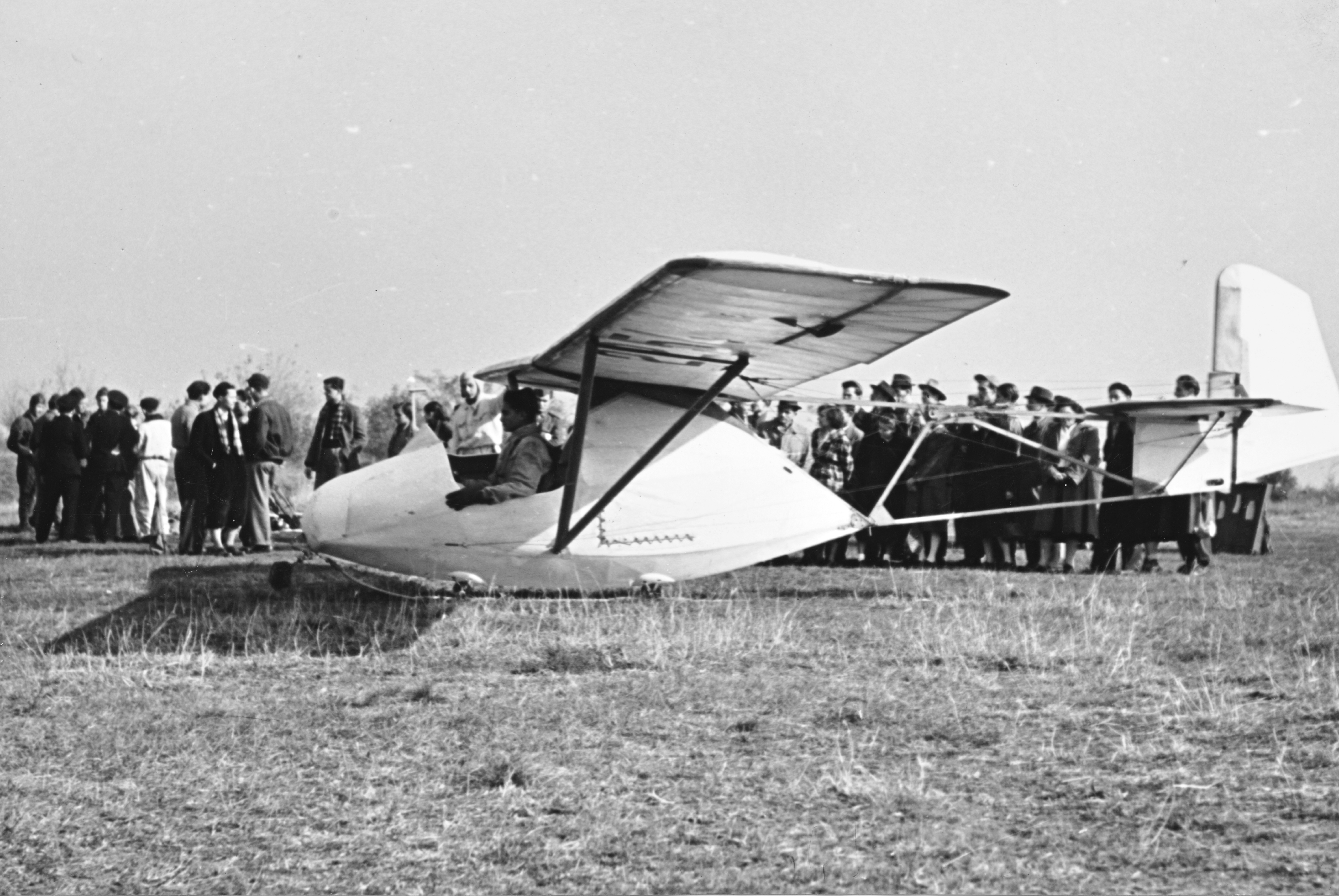 Tags: airport, airplane, sailplane, Hungarian brand